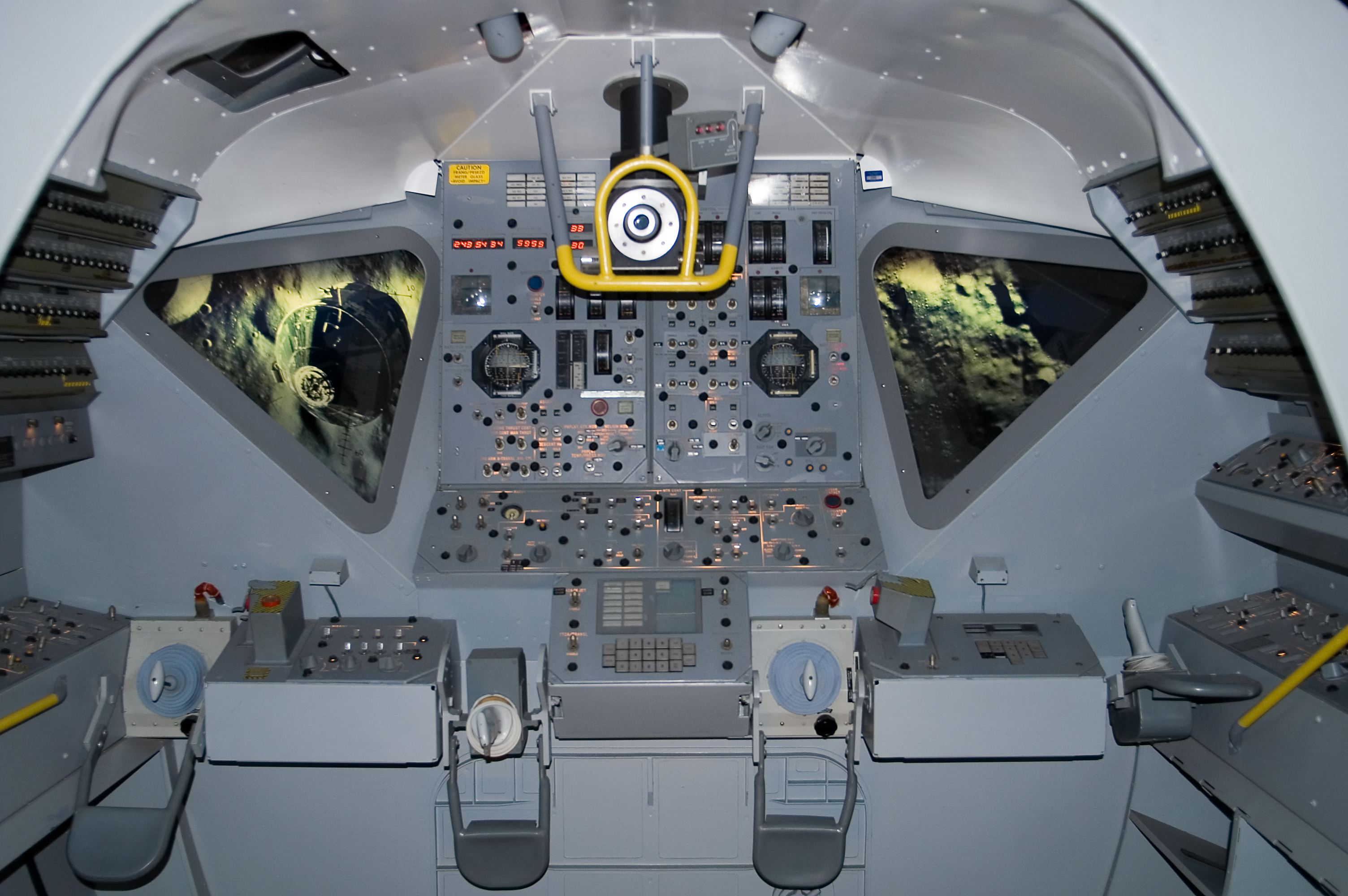 LM simulator on display at the Johnson Space Center in Houston, TX.